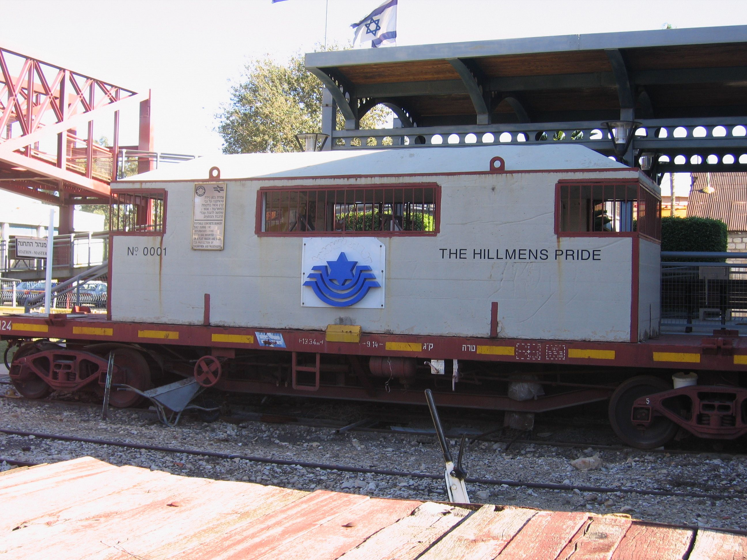 Israel Railway Museum, Haifa: Concrete bunker mounted on a flat car. Palestine Railways (1936)